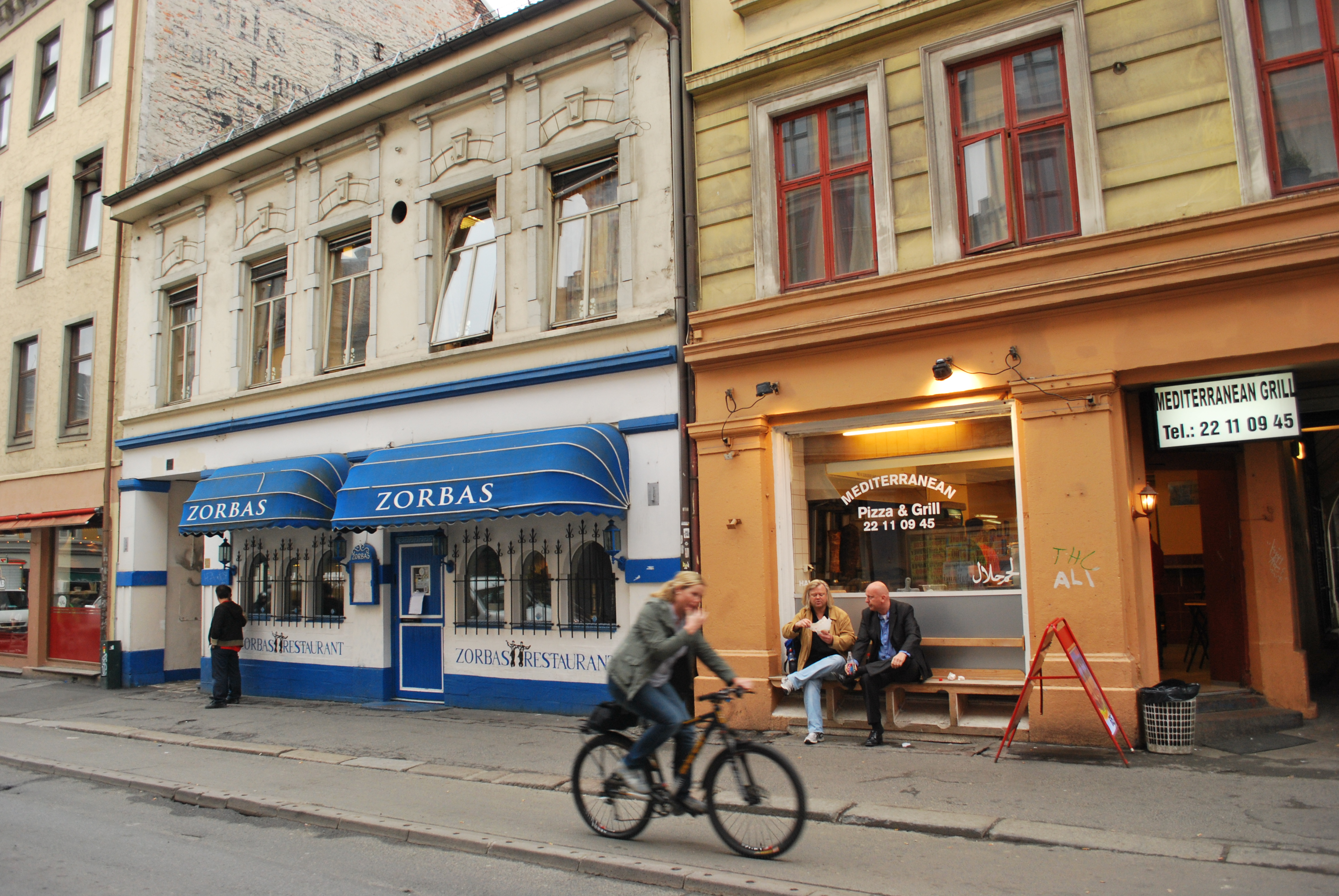 Torggata, Oslo